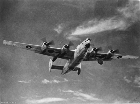 Australian War Memorial (AWM) catalog number AC0208. A RAAF B-24J Liberator bomber taking off.